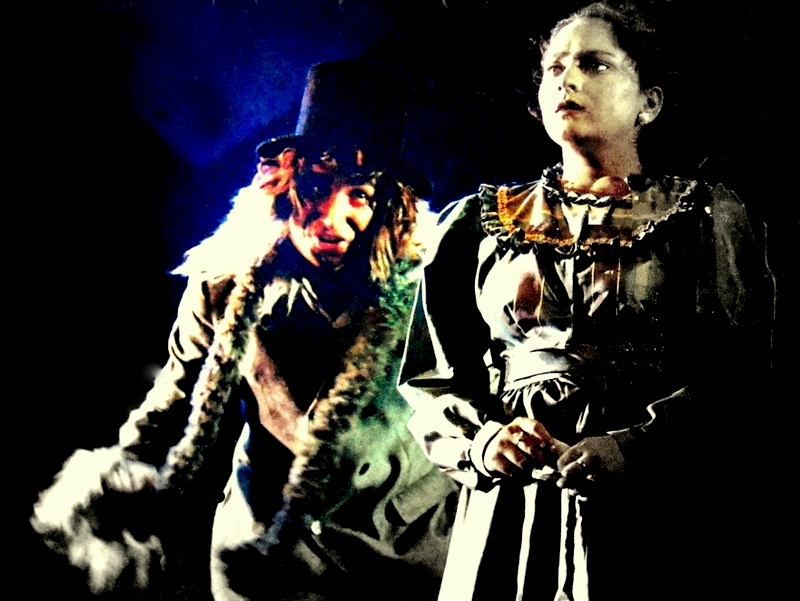 1st image to be added in Theatre section of my article Inaamulhaq